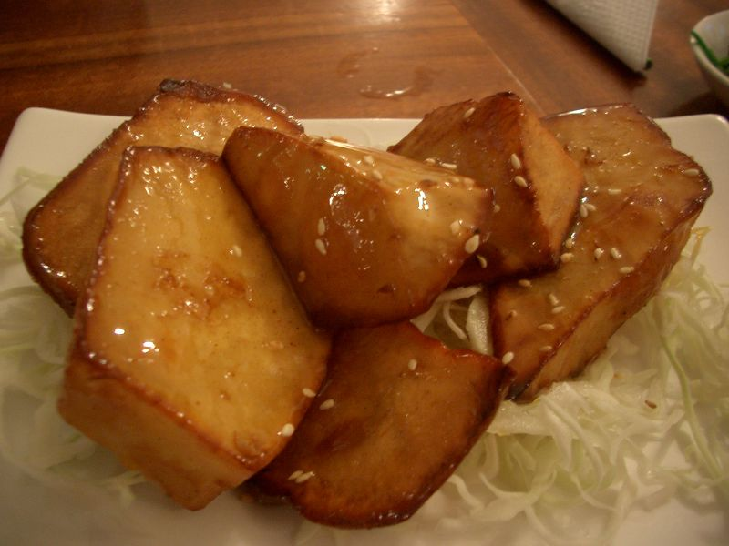 맛탕, Mat tang, caramel coating sweet potatoes